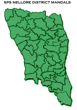 Nellore district mandals outline map